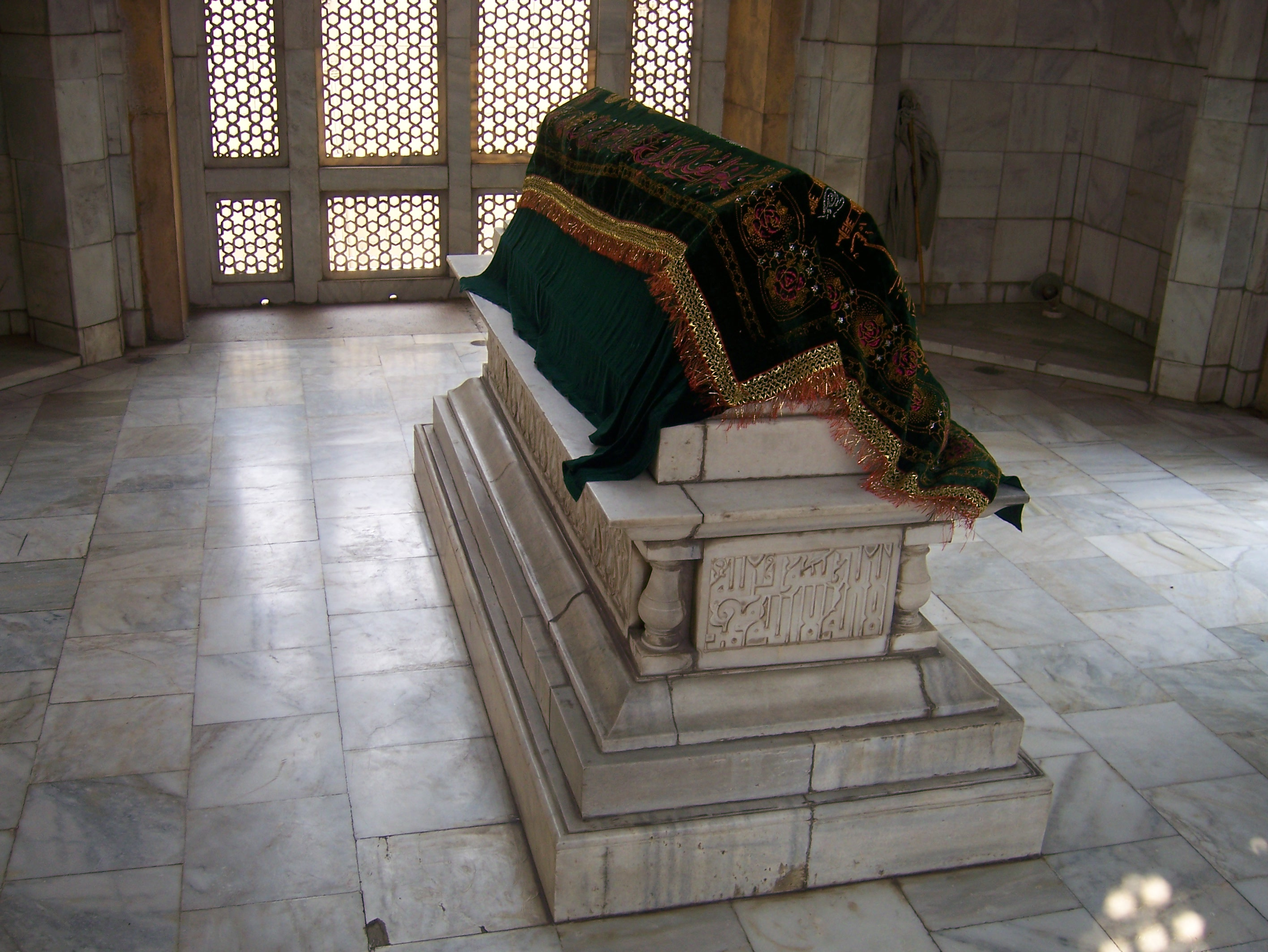 Grave of Qutub ud Din Aibak in Anarkali Lahore, Pakistan.